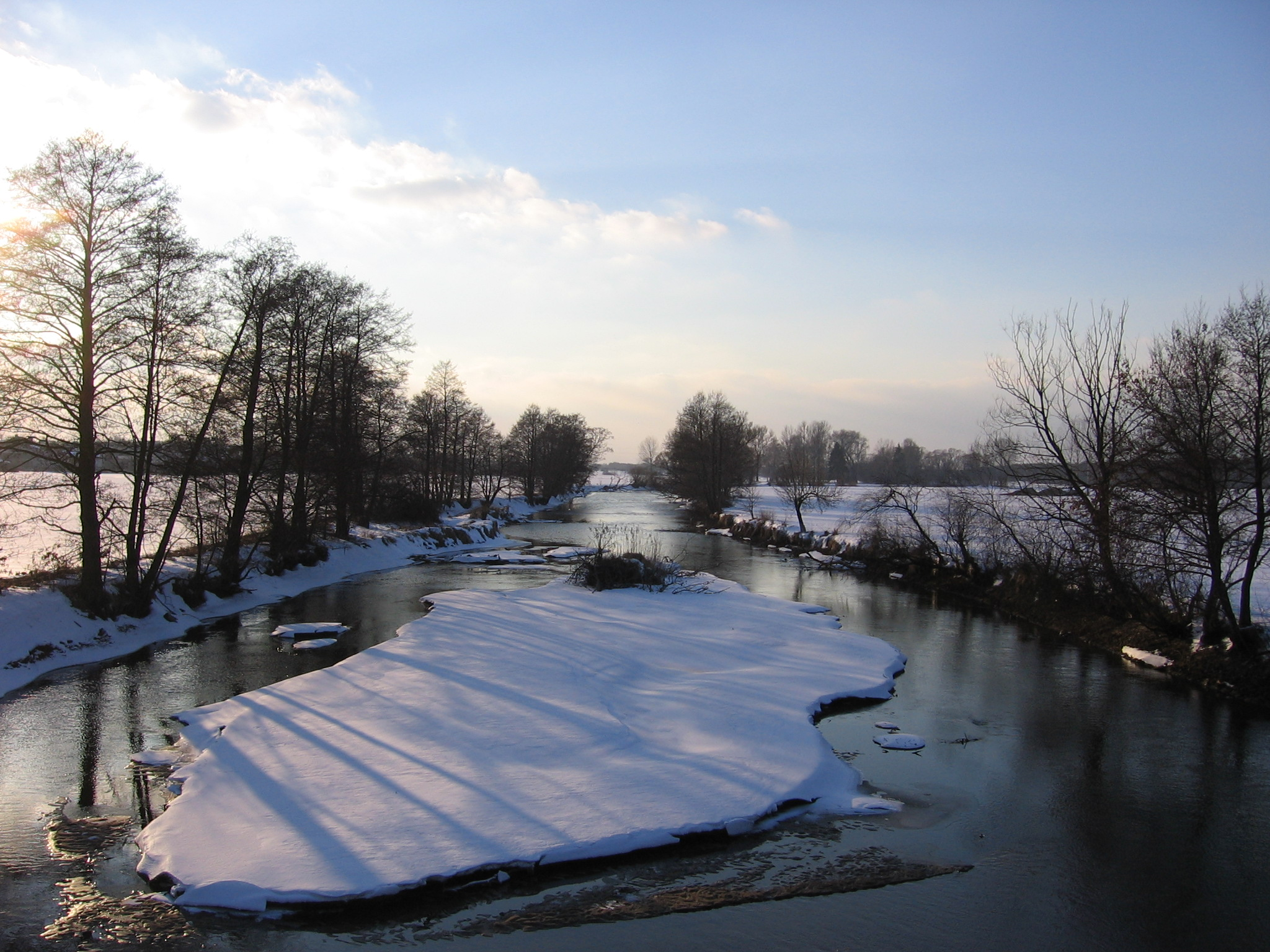 Swider river - view from Sufczyn